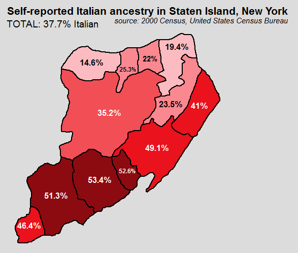 % of people who self-identified as Italian during the 2000 US Census in Staten Island, Richmond County, New York